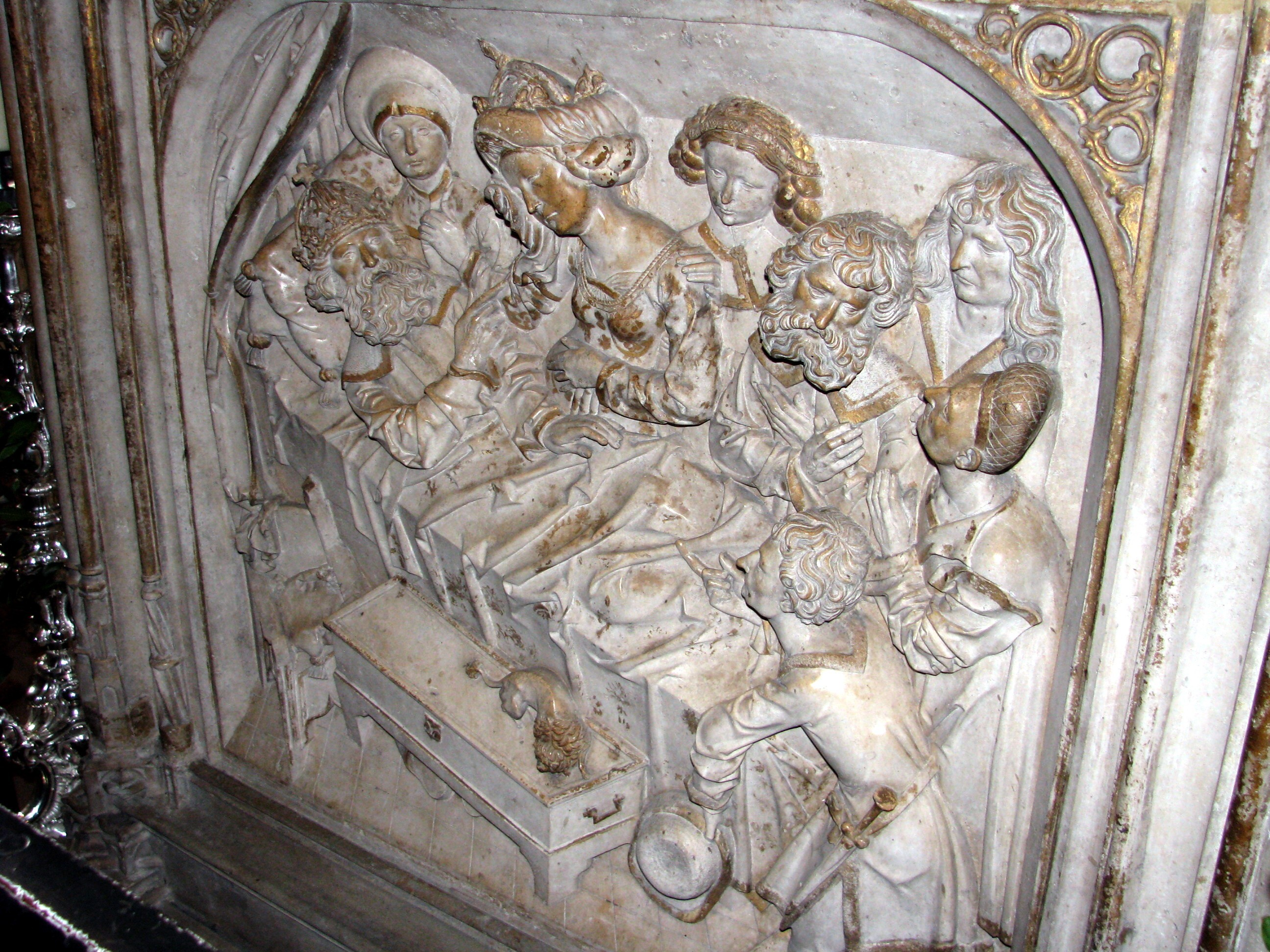 Bamberg, Cathedral, tomb of Henry II and Cunigunde tomb by Tilman Riemenschneider